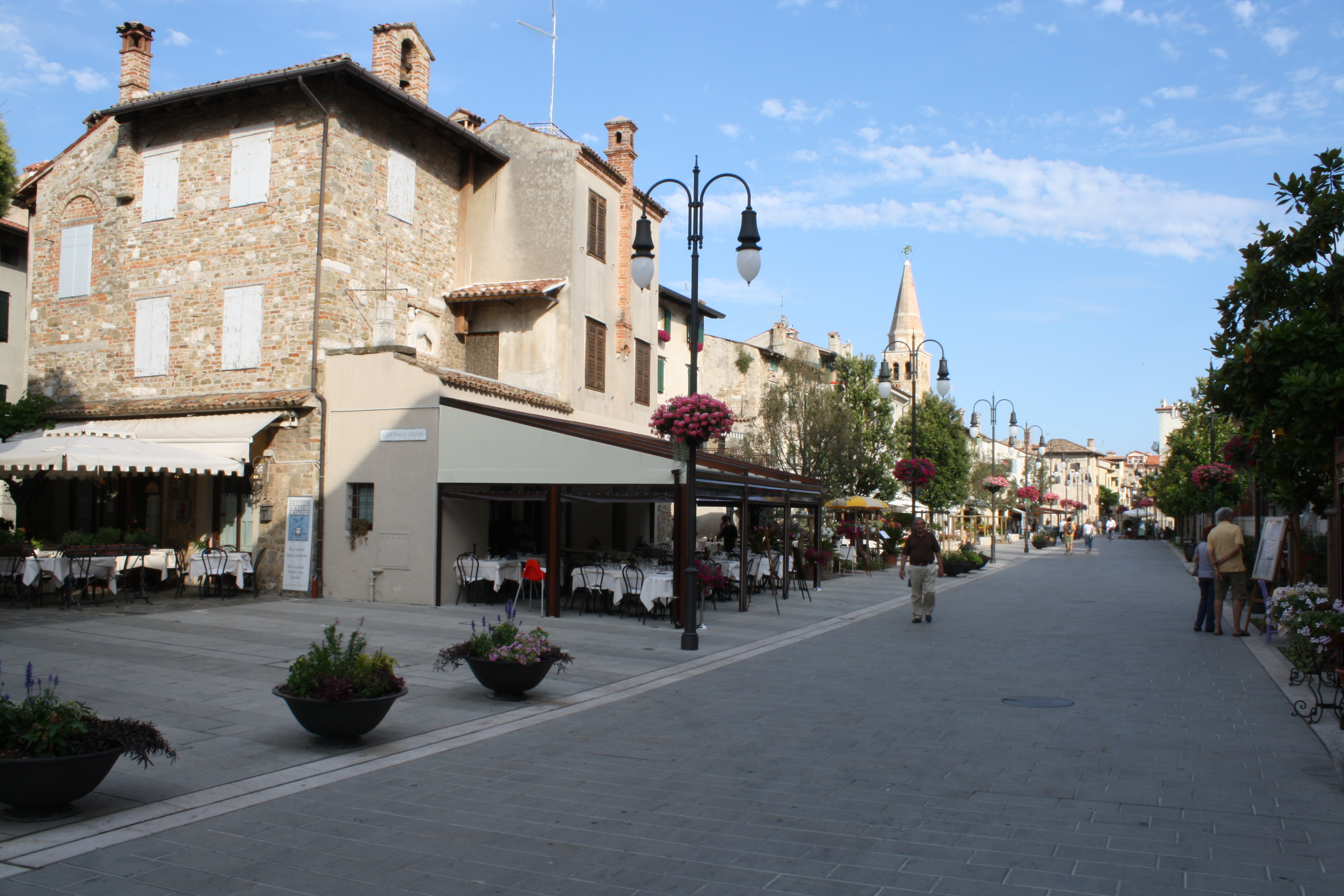 Old Town of Grado